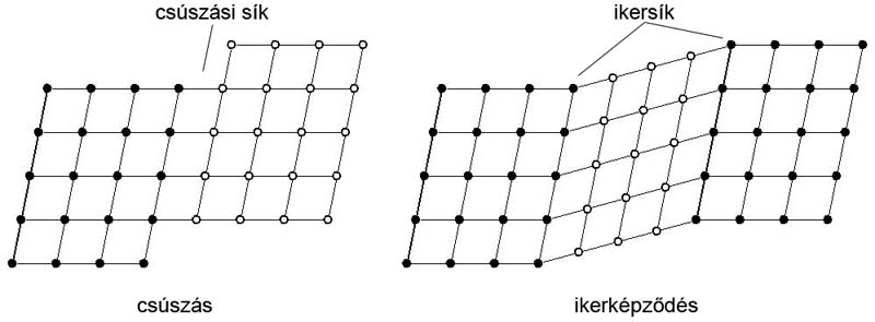 Plastic deformation possibilities